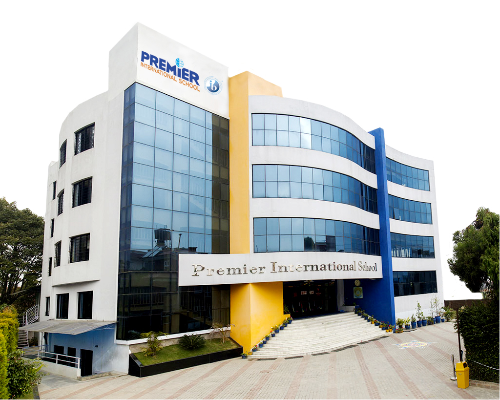 Premier building